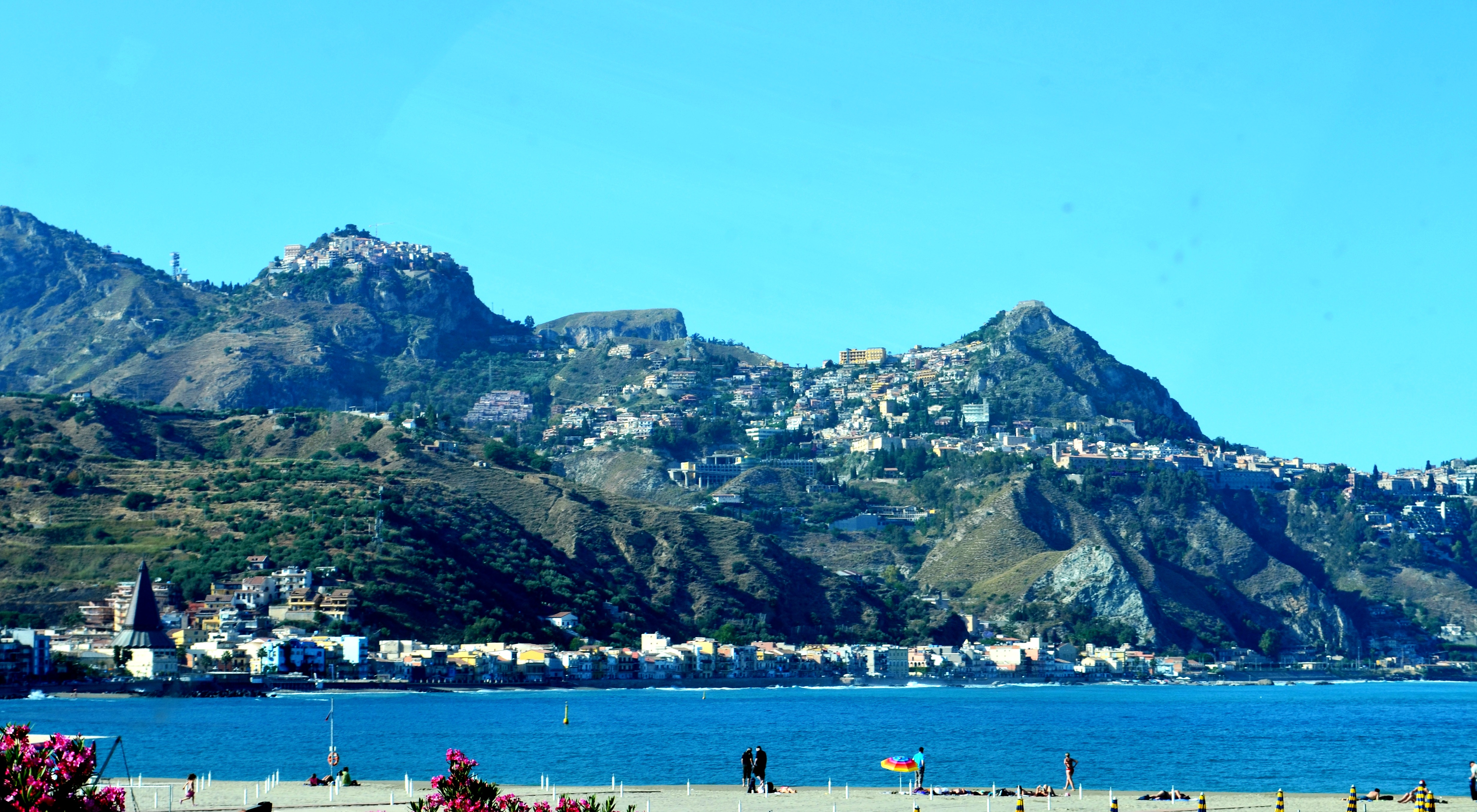 Giardini Naxos, Sicily